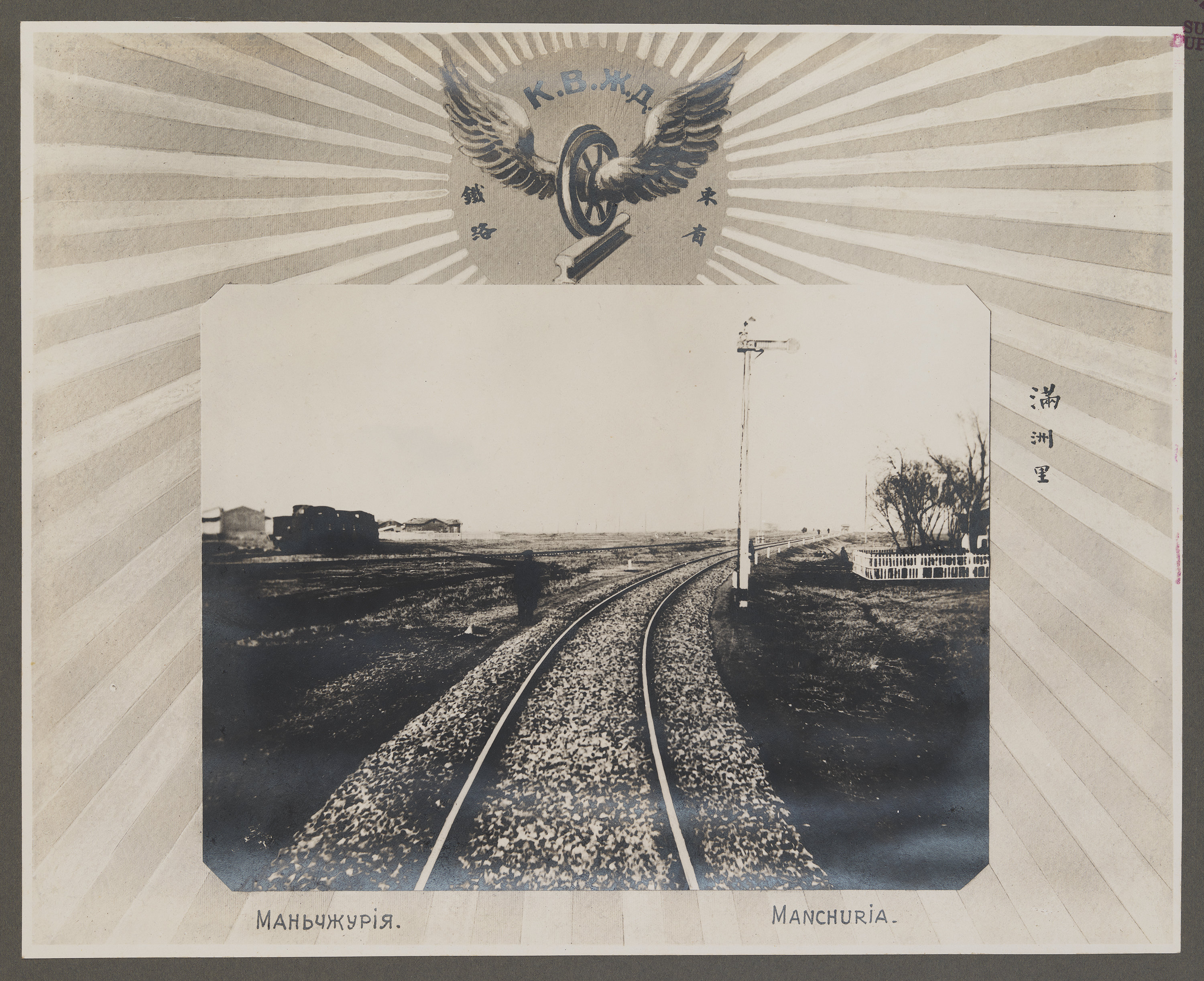 Title: Manchuria Creator: Unknown Date: ca. 1903-1919 Place: Manzhouli, Hulunber, Inner Mongolia Autonomous Region, People's Republic of China Part Of: Views of the Chinese Eastern Railway Description: This photograph is part of an album, Views of the Chinese Eastern Railway, which contains 42 photographic prints. The Chinese Eastern Railway, also known as the Trans-Manchurian line of the Trans-Siberian Railway, linked Chita to Vladivostok. Physical Description: 1 photographic print: gelatin silver, part of 1 volume (42 gelatin silver prints); 21 x 27 cm on 27 x 38 cm File: ag1987_0662x_01_opt.jpg Rights: Please cite Southern Methodist University, Central University Libraries, DeGolyer Library when using this image file. A high-quality version of this file may be obtained for a fee by contacting . For more information, View the full album: View the